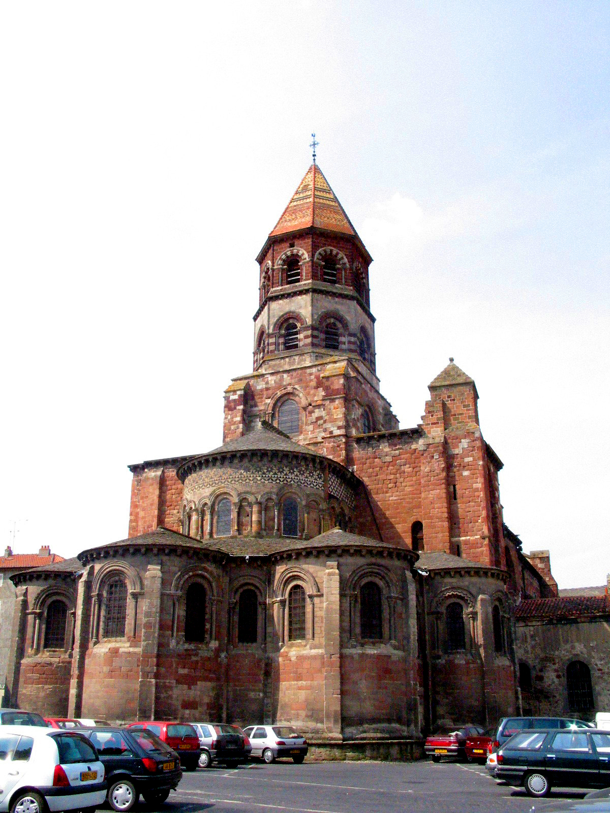 Brioude (Haute-Loire - France), Basilica of St. Julien (1060-1180).